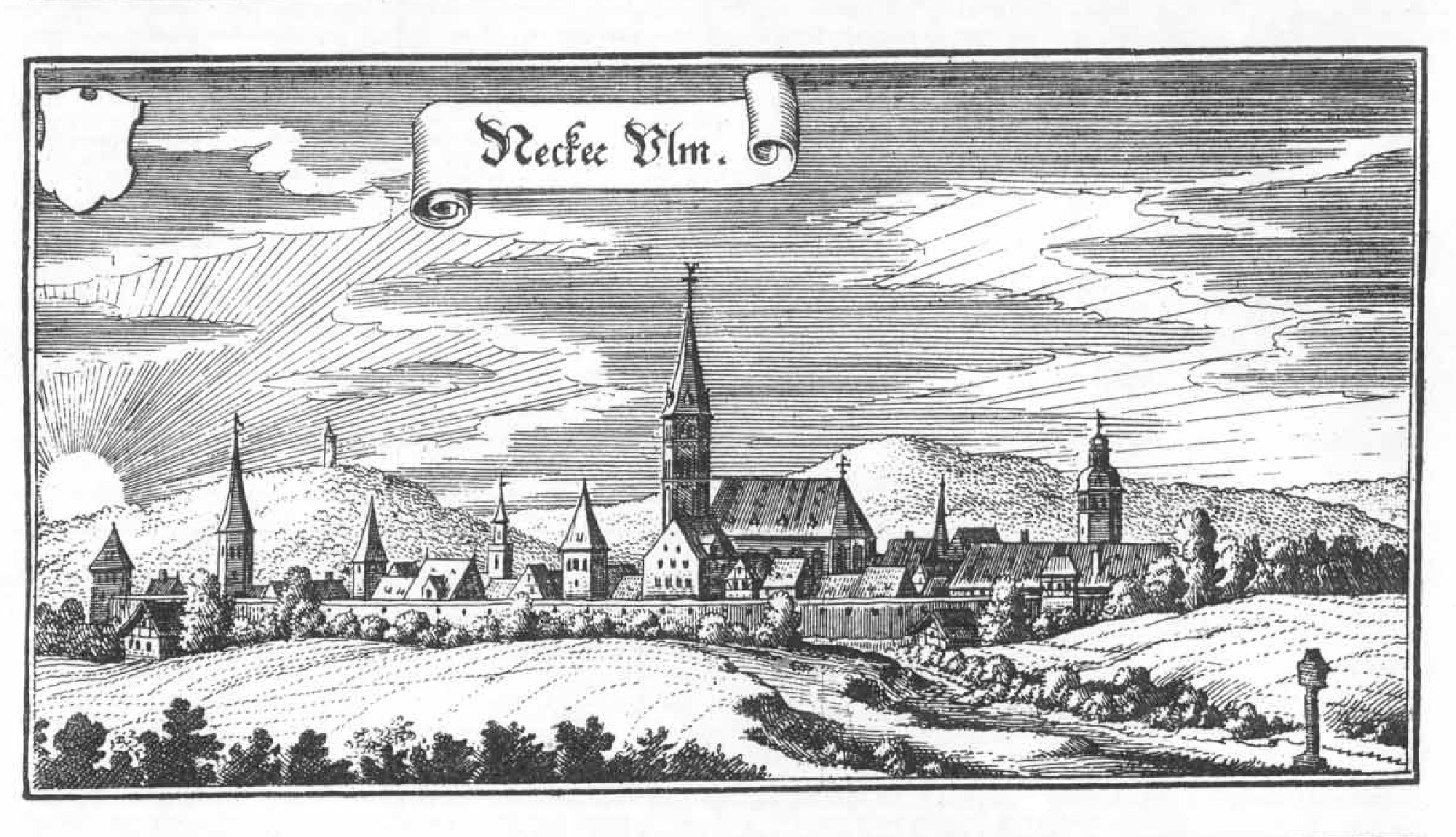 Neckarsulm in about 1648. Illustration from Matthäus Merian's Topographia Franconiae, 1648/56